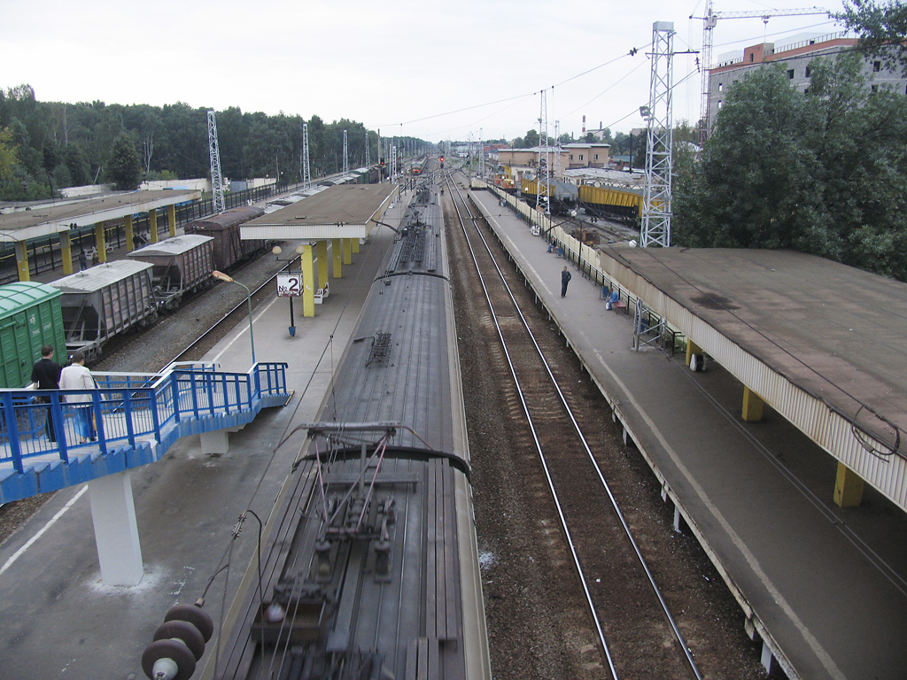 my own work Zheleznodorozhny (town near Moscow), railway station